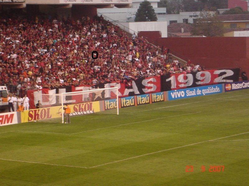 Ultra fans of Clube Atlético Paranaense, Brazil